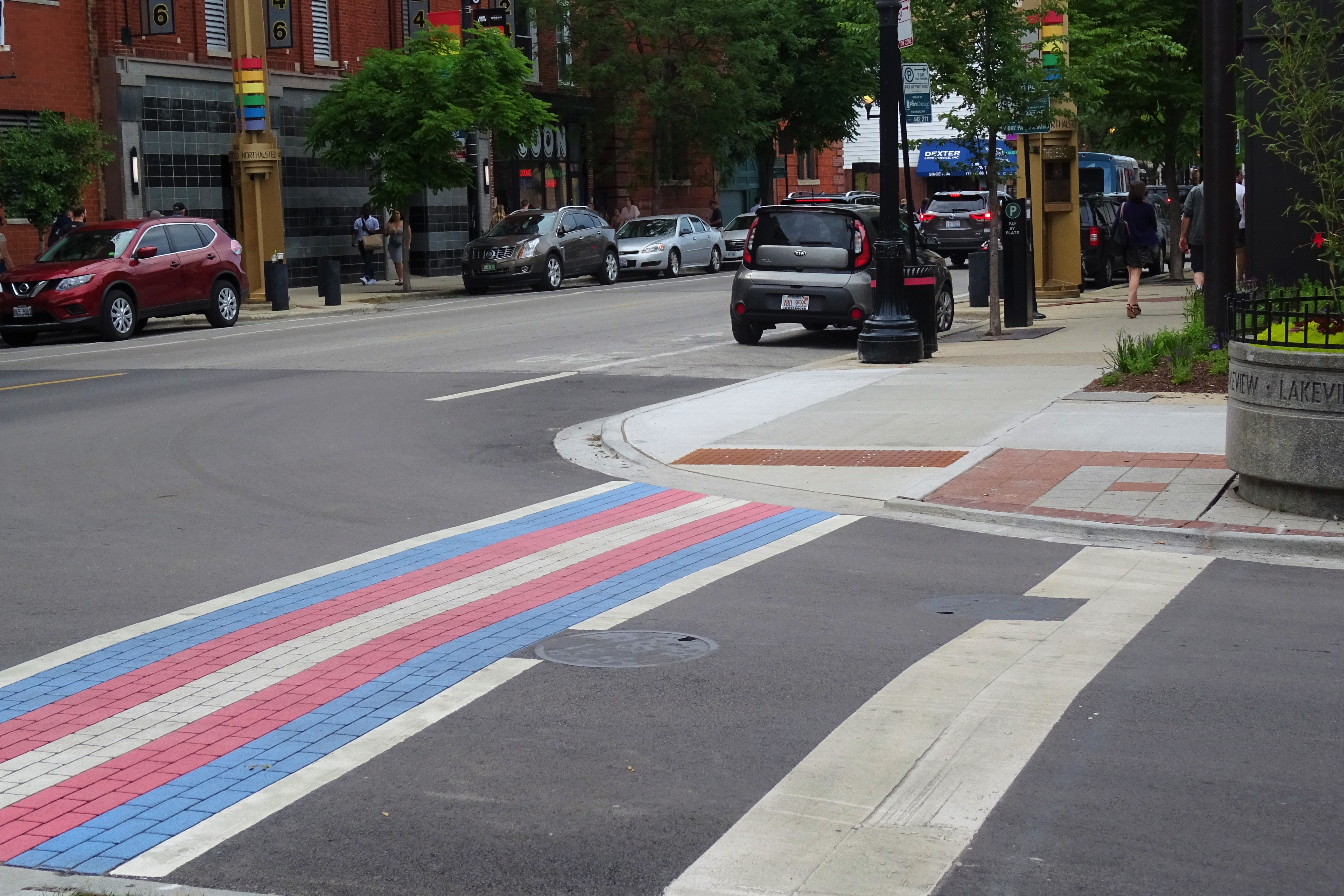 LGBTQ+ pedestrian which is colored in the transexual flag in Chicago, June 2019